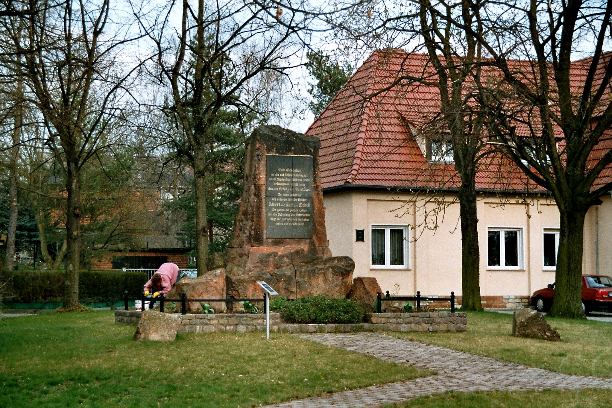 Friedensdorf (Leuna), the war memorial (Napoleonic Wars)